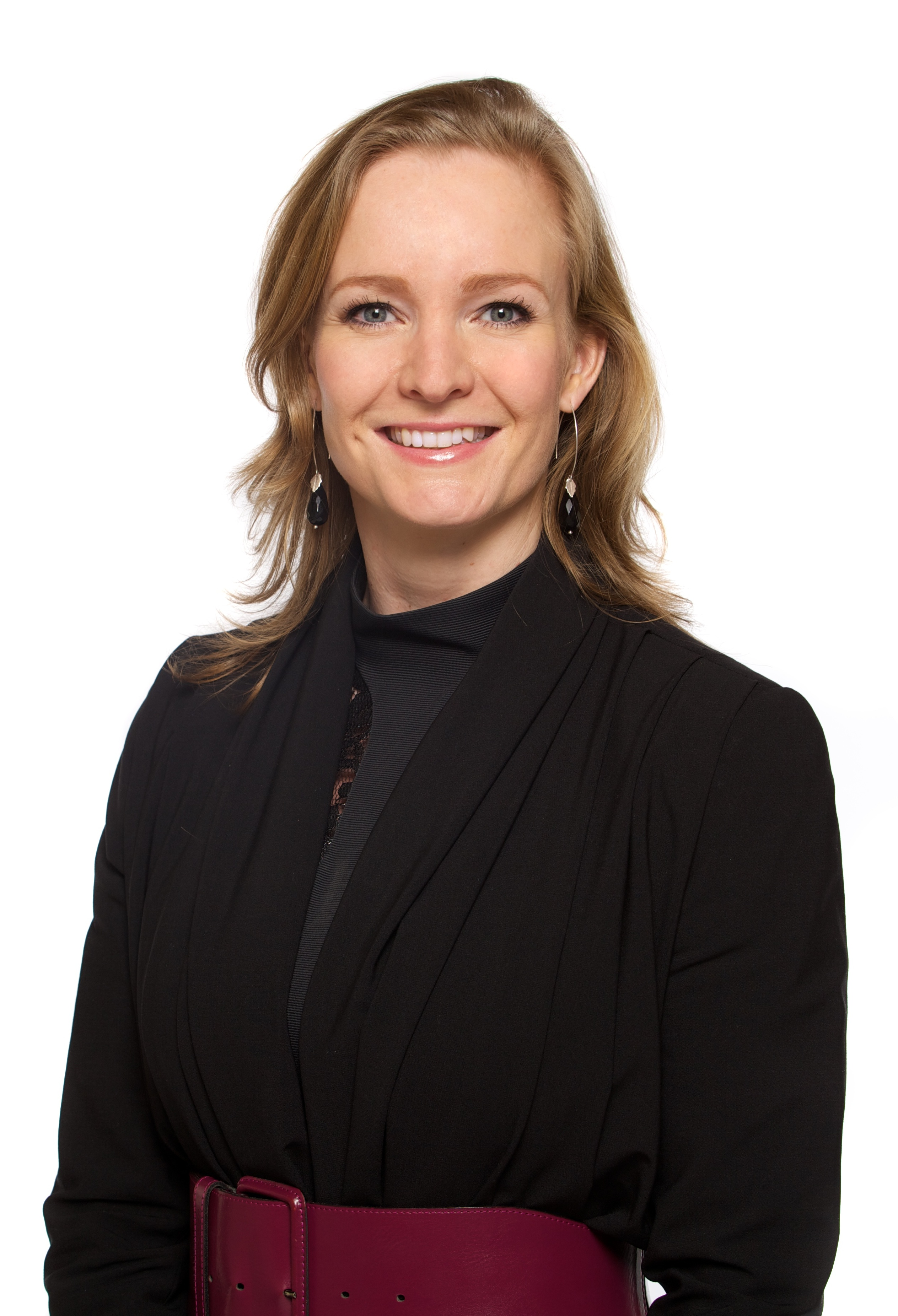 Marietje Schaake - Candidate for the European Parliament for D66. This portrait has been commissioned by the European office of D66 for the European elections in May 2014.